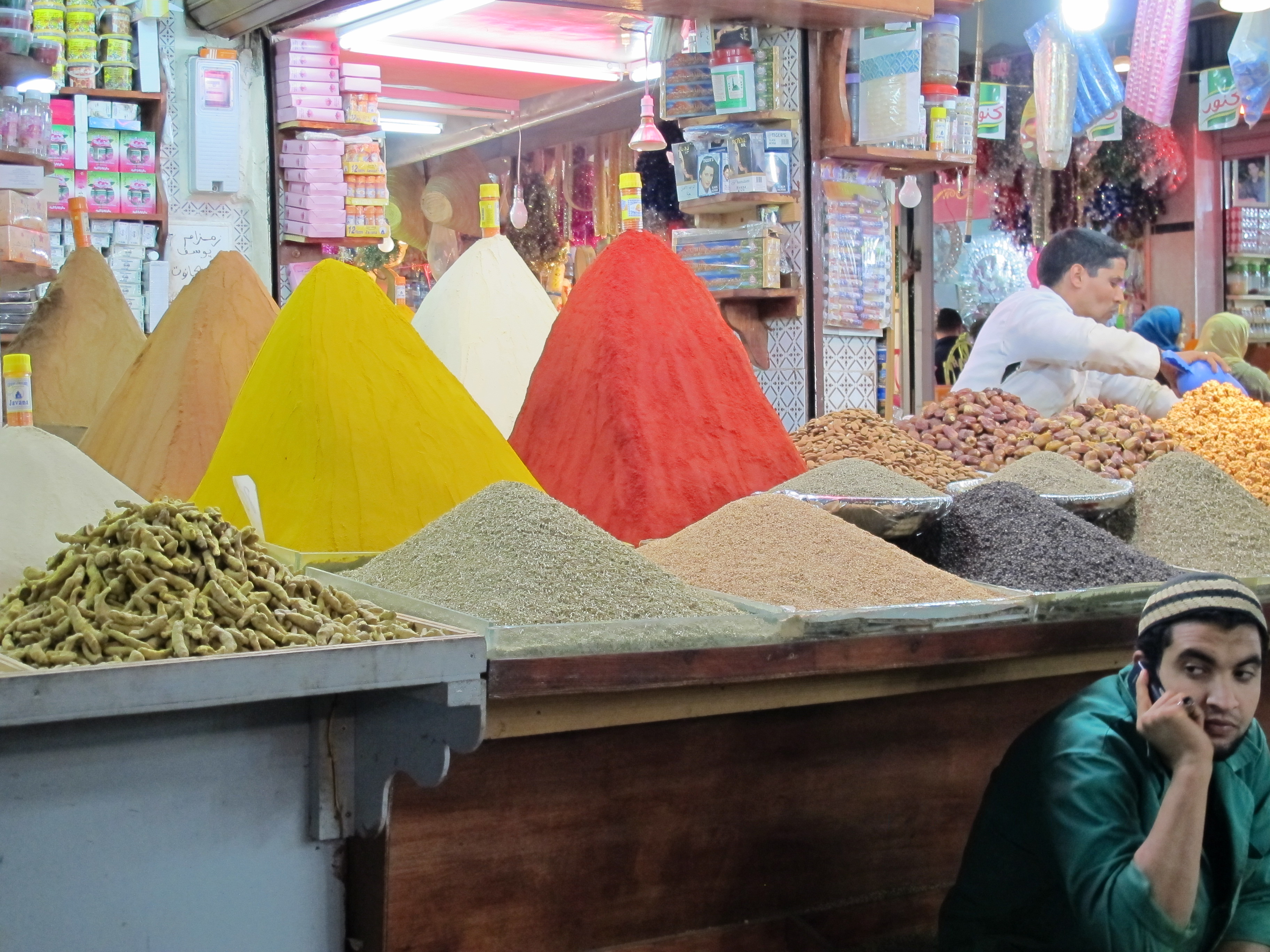 Spices and nuts for sale in a spice market in Casablanca, Morocco.